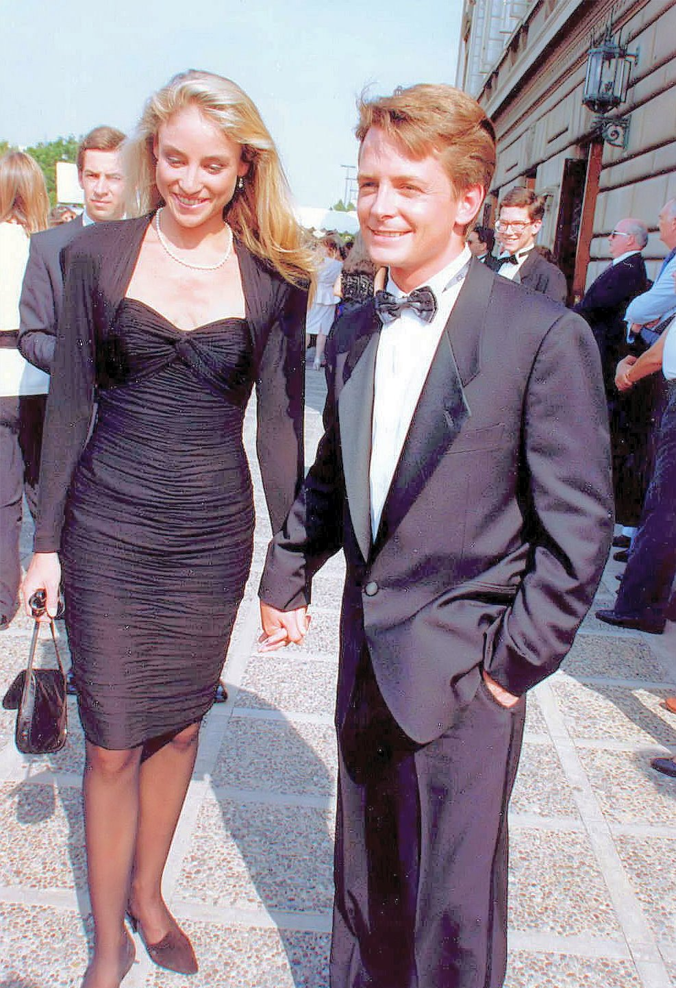 Actor Michael J Fox and Tracy Pollan at the 40th Emmy Awards